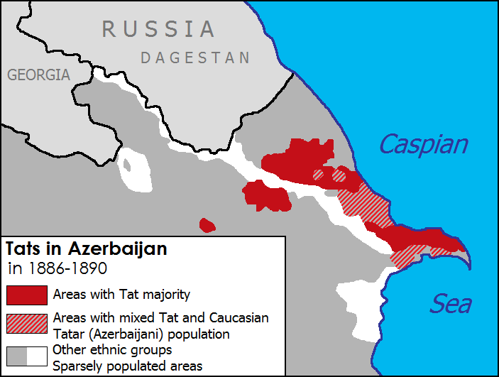 Tats in Azerbaijan in 1886-1890 according to Ethnic map of Caucasus region in 1886-1890 from A. Tsutsayev's Atlas of Ethnopolitical Hisotry of the Caucasus, Moscow, 2007 (АТЛАС ЭТНОПОЛИТИЧЕСКОЙ ИСТОРИИ КАВКАЗА, Цуциев А.А, Москва: Издательство «Европа», 2007)